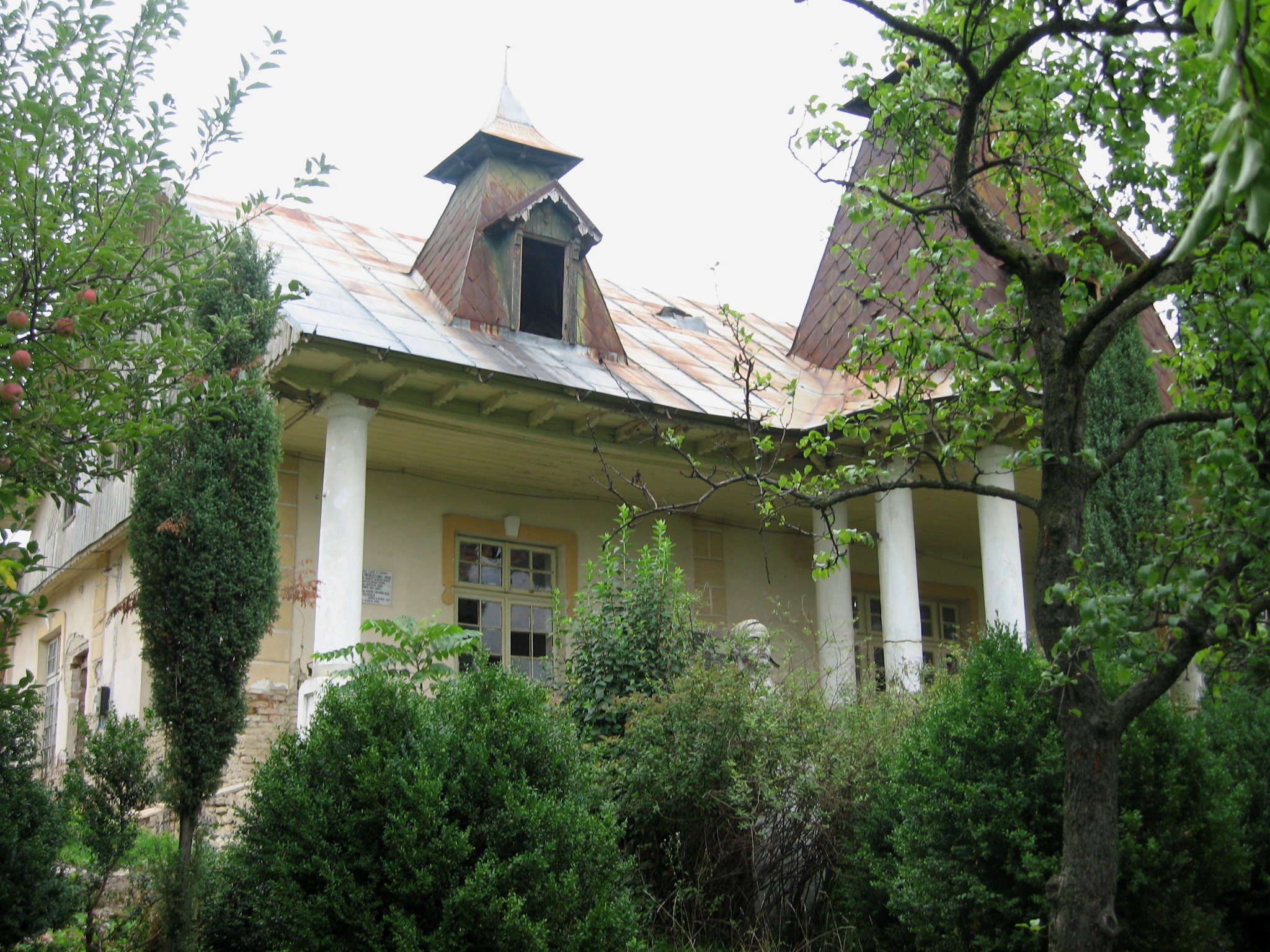 Conacul lui Ion Inculeţ din Bârnova